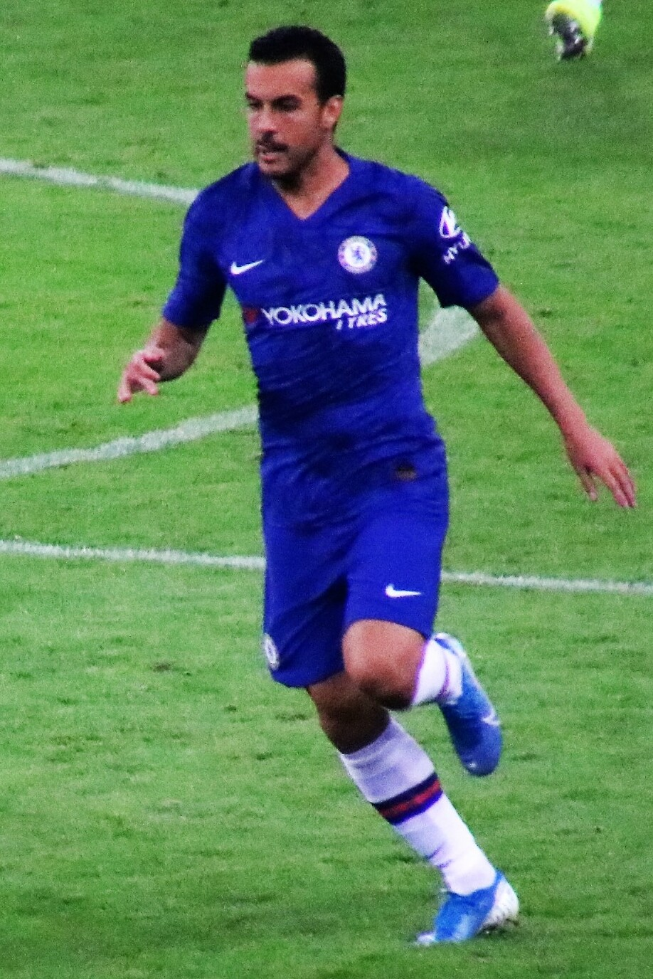 Pedro during Pre-season match